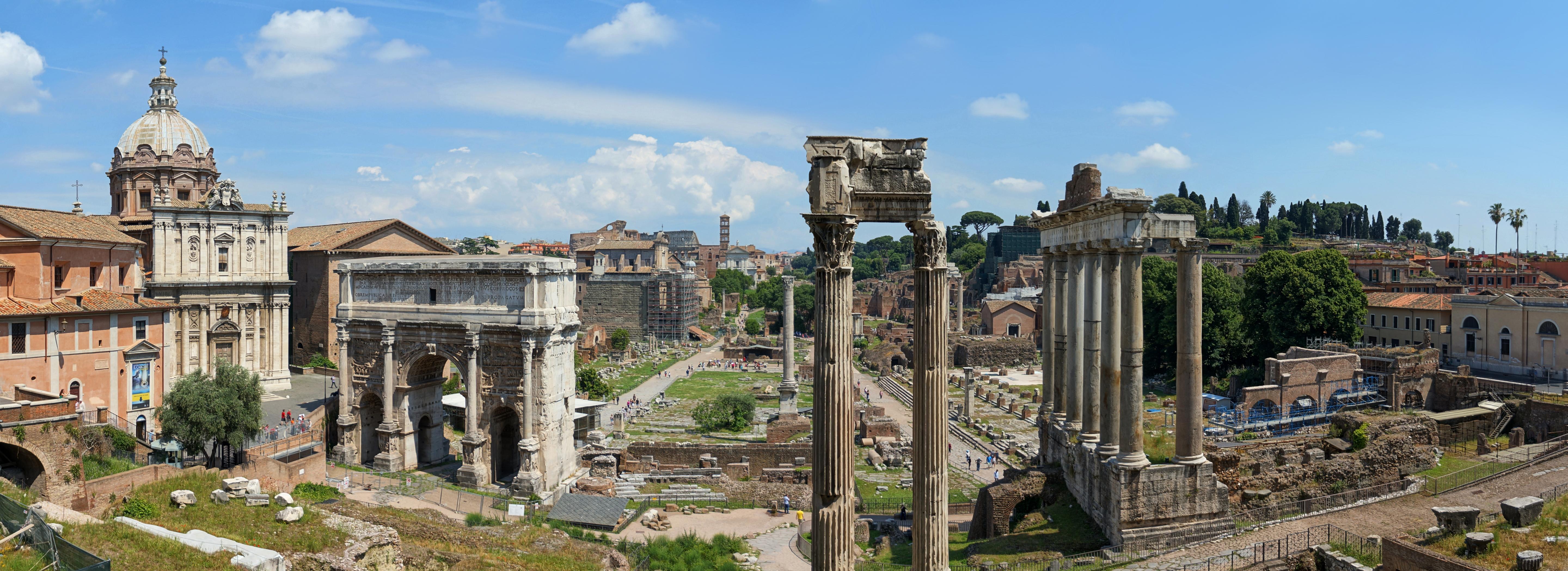 The Forum Romanum in Rome. HDR panoramic view out of 9 pictures (3 exposures at 3 different angles). Picture taken from the Capitoline Museums.